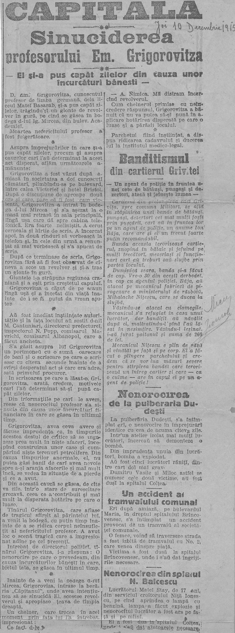 Suicide of Emanuil Grigorovitza, in Romanian newspaper, 10 December 1915